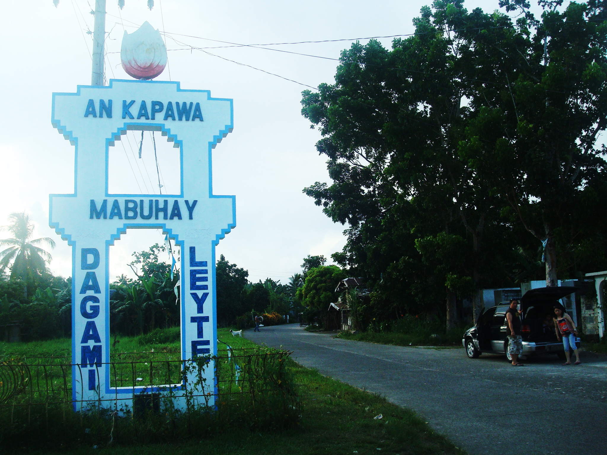 Entering the Town Proper.